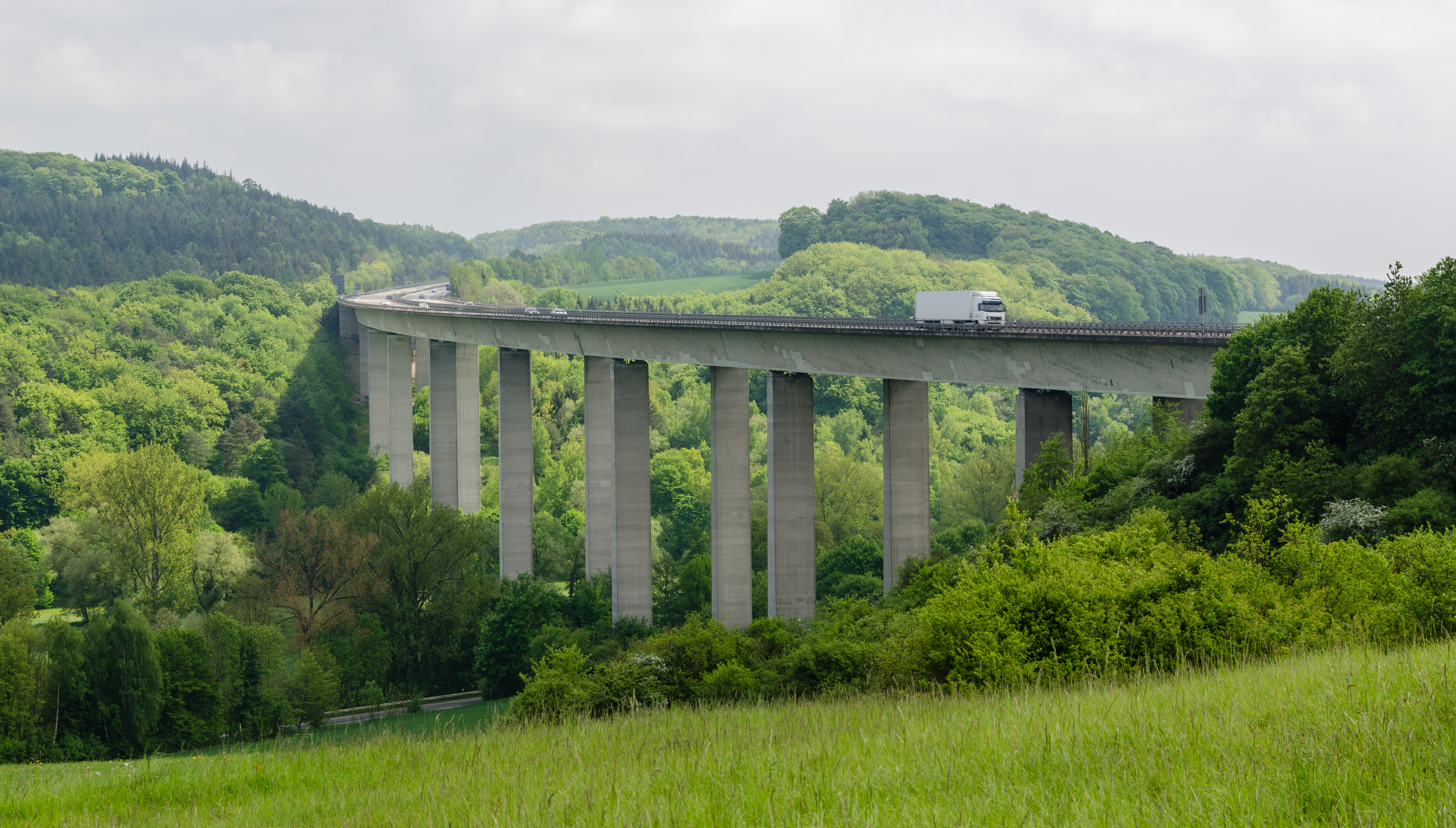 Valley Bridge Twiste, motorway A44 near Warburg